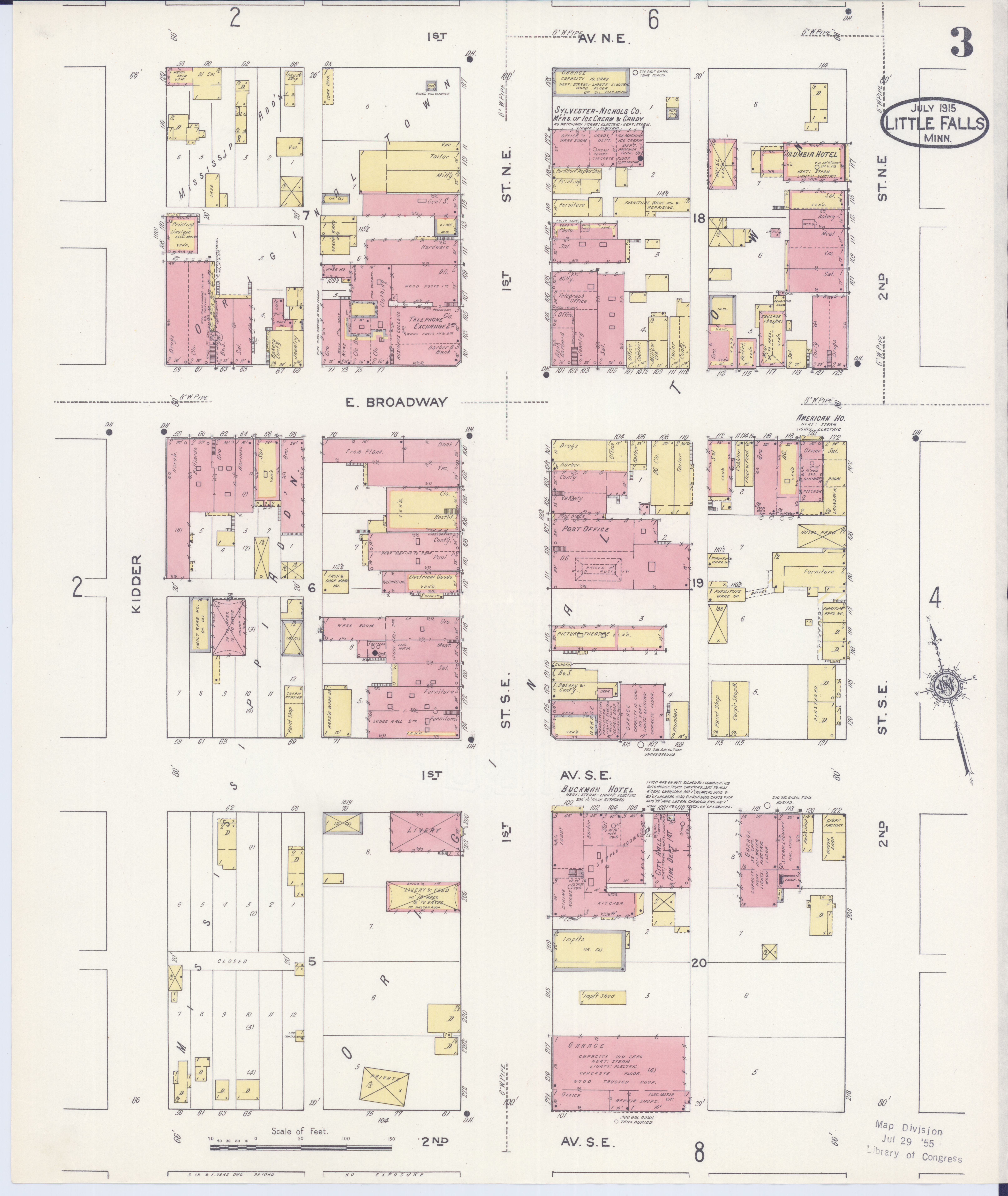 Jul 1915. 14 Sheet(s).